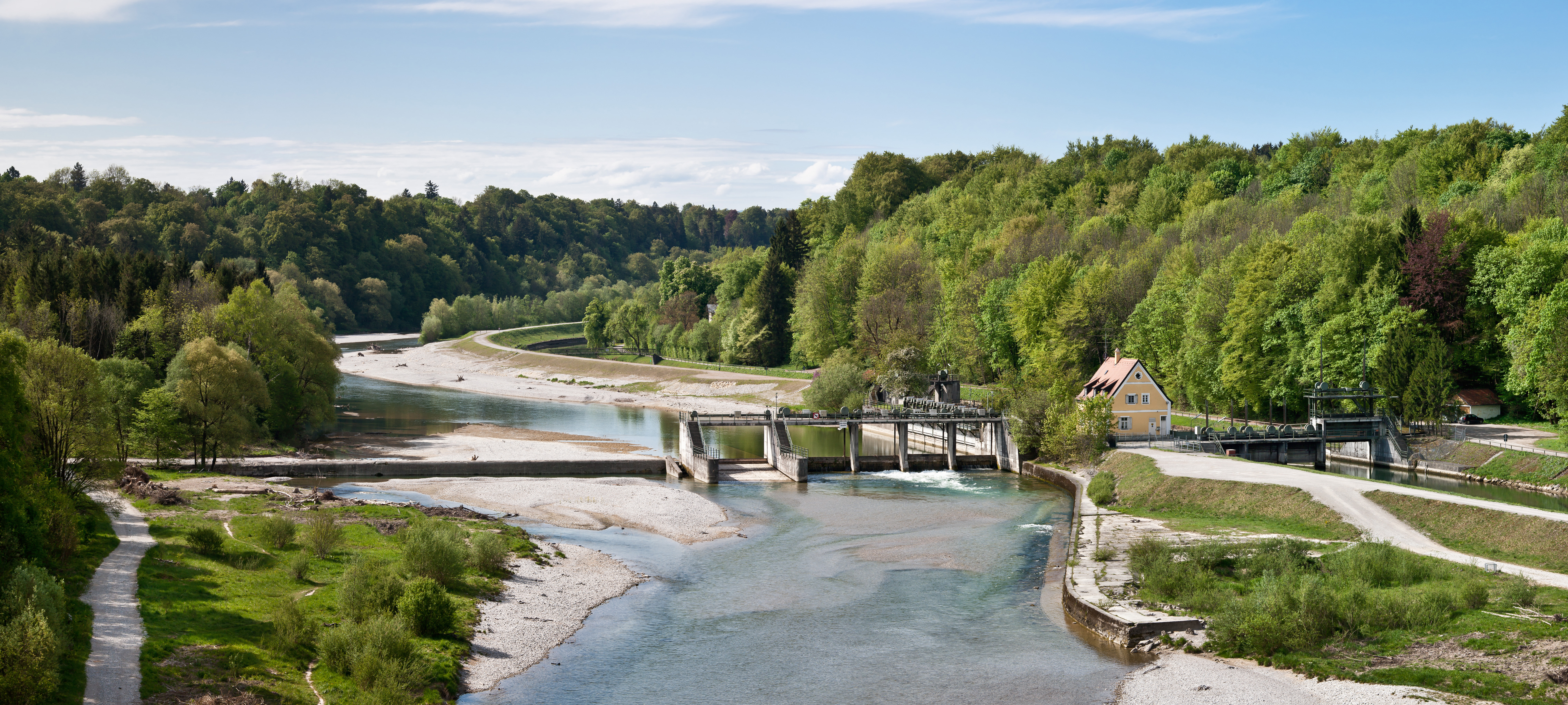 Großhesselohe weir, Munich, Germany. Viewing direction: south